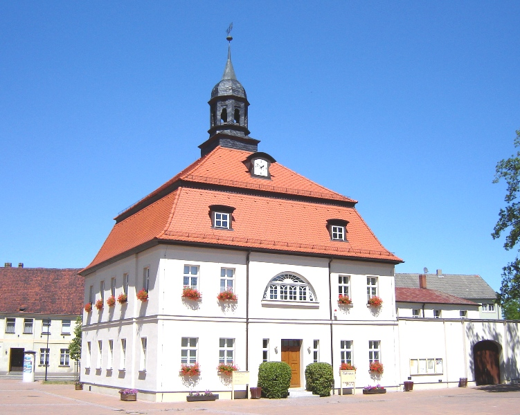 Town hall in Loburg (Saxony-Anhalt)